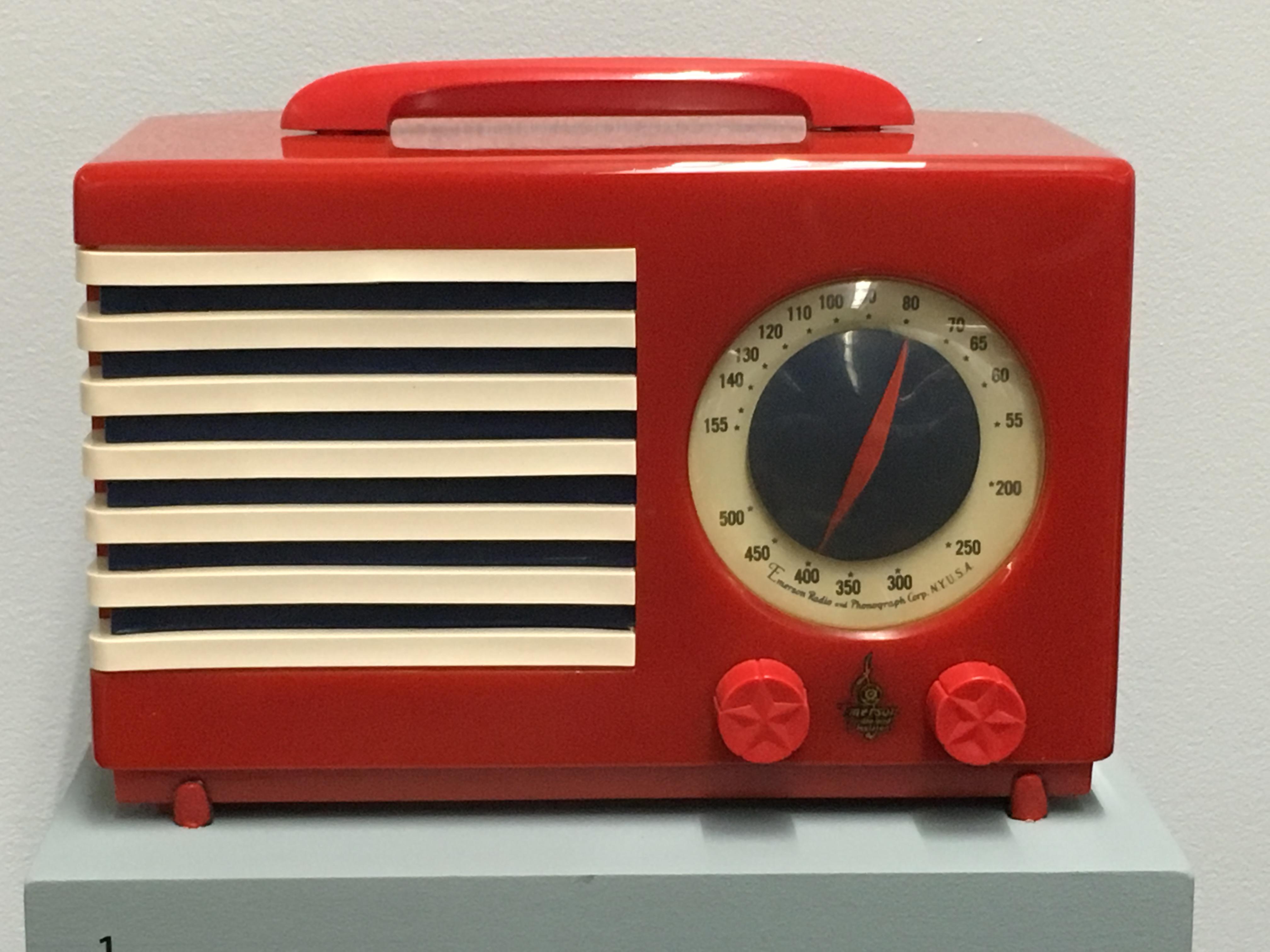 Model 400-3 “Patriot” (1940) radio. Manufactured by Emerson Radio & Phonograph Corporation in New York City and designed by Norman Bel Geddes. Catalin. On display at SFO Museum "On The Radio" exhibition in 2018.